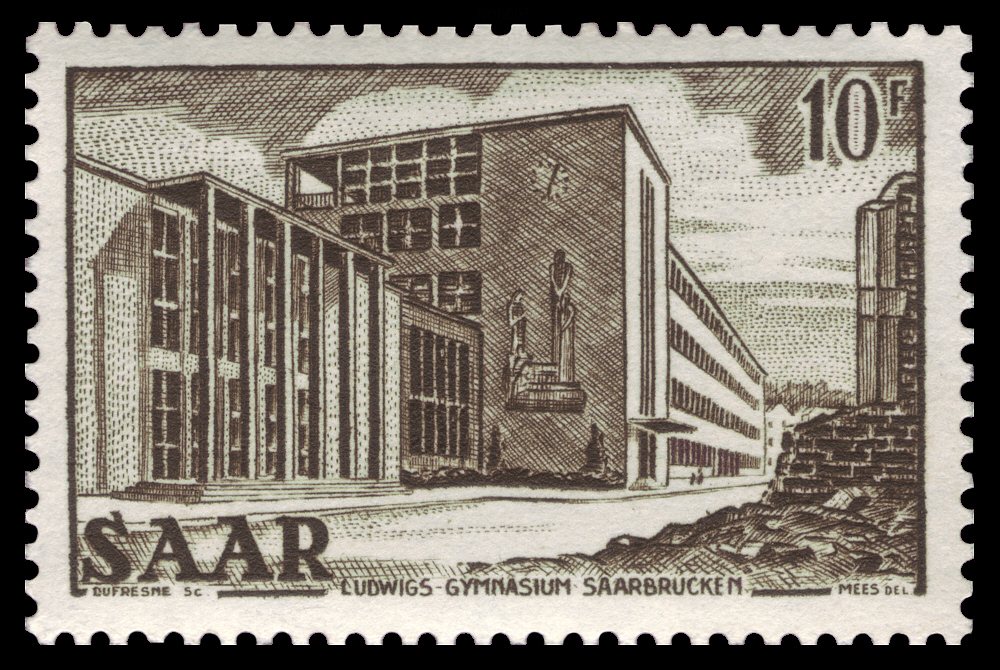 stamps series “Ansichten aus dem Saarland” (“Saar V”)